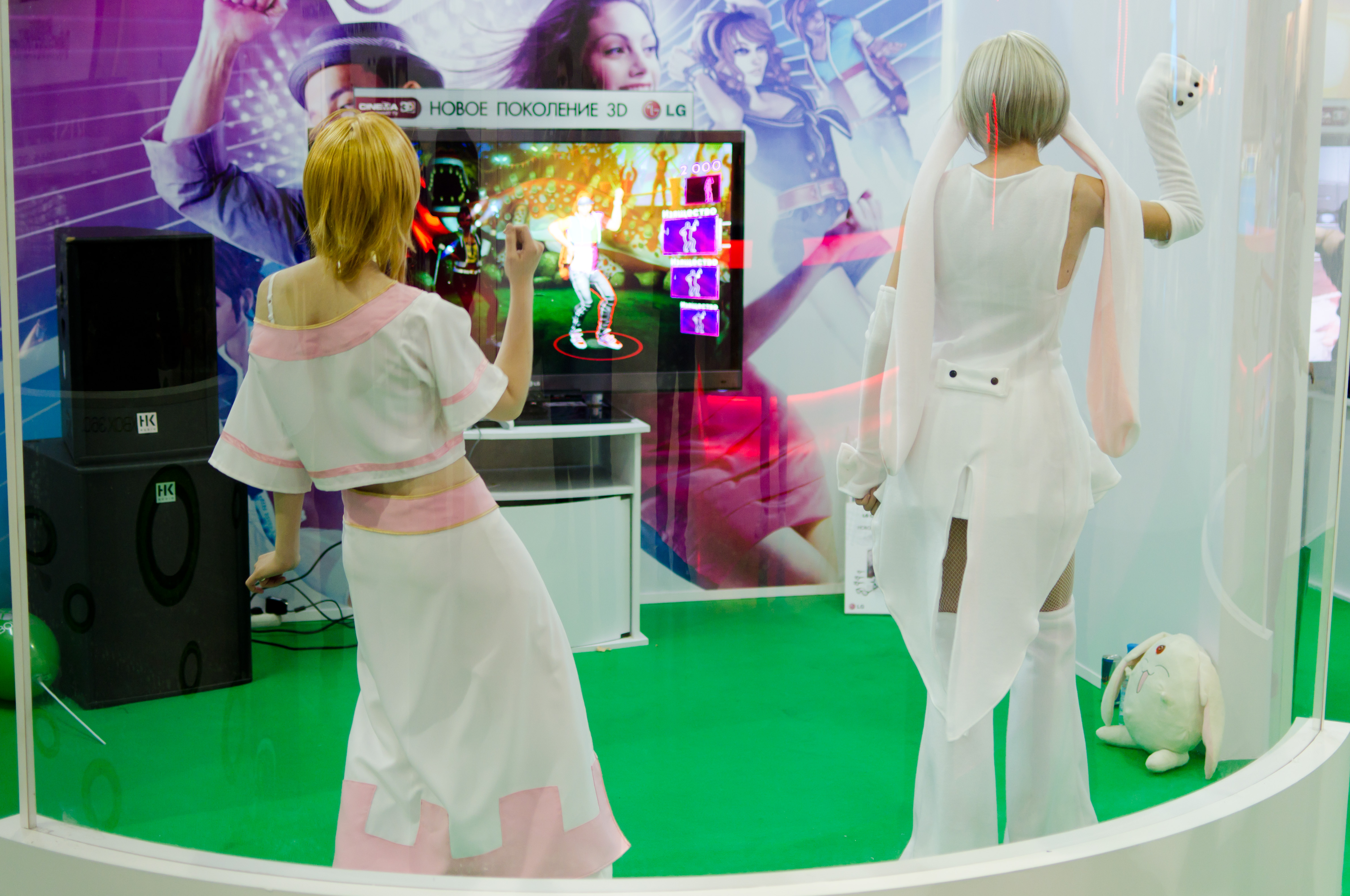 Dance Central 2 at Igromir 2011